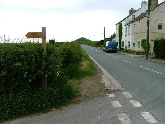 Freeborough road, Moorsholm, North Yorkshire, with Freeborough Hill visible in the distance